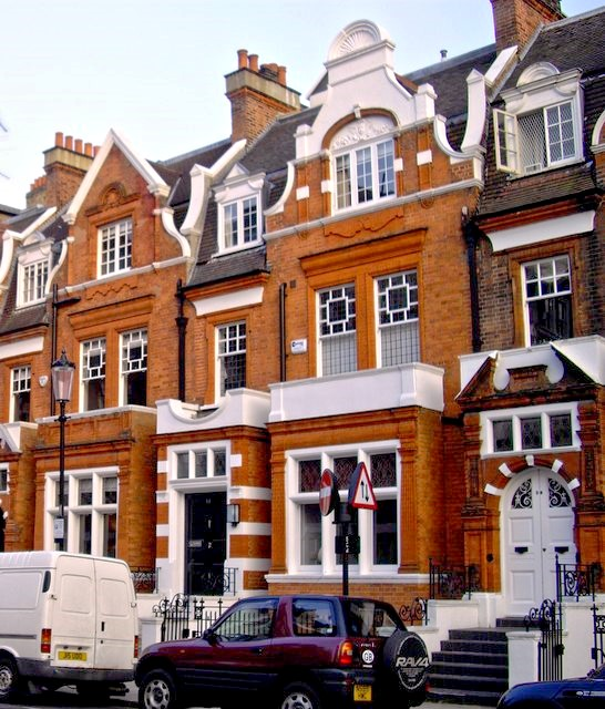 Houses in Earls Court Square